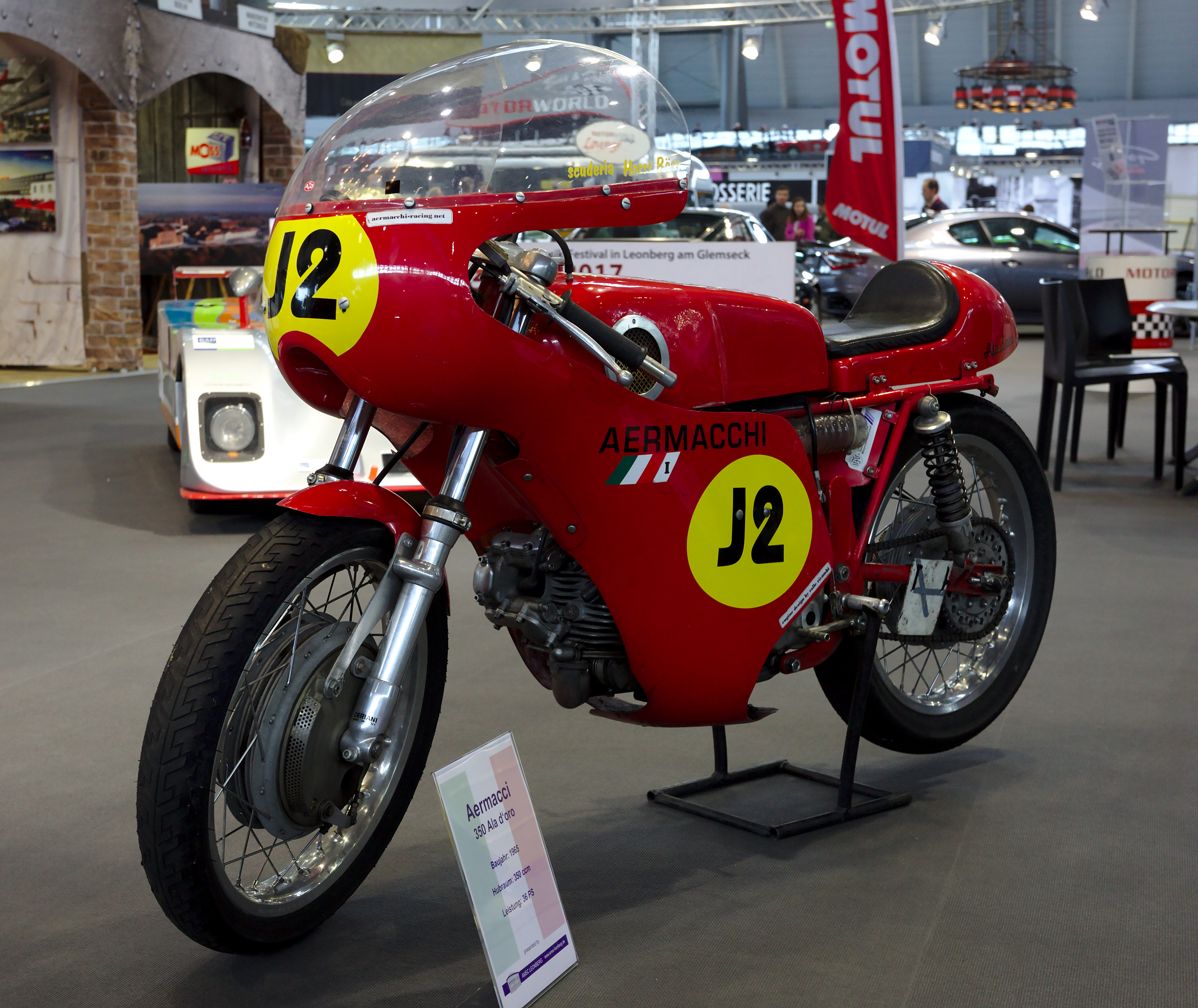 Aermacchi 350 Ala DÓro at Retro Classics 2018